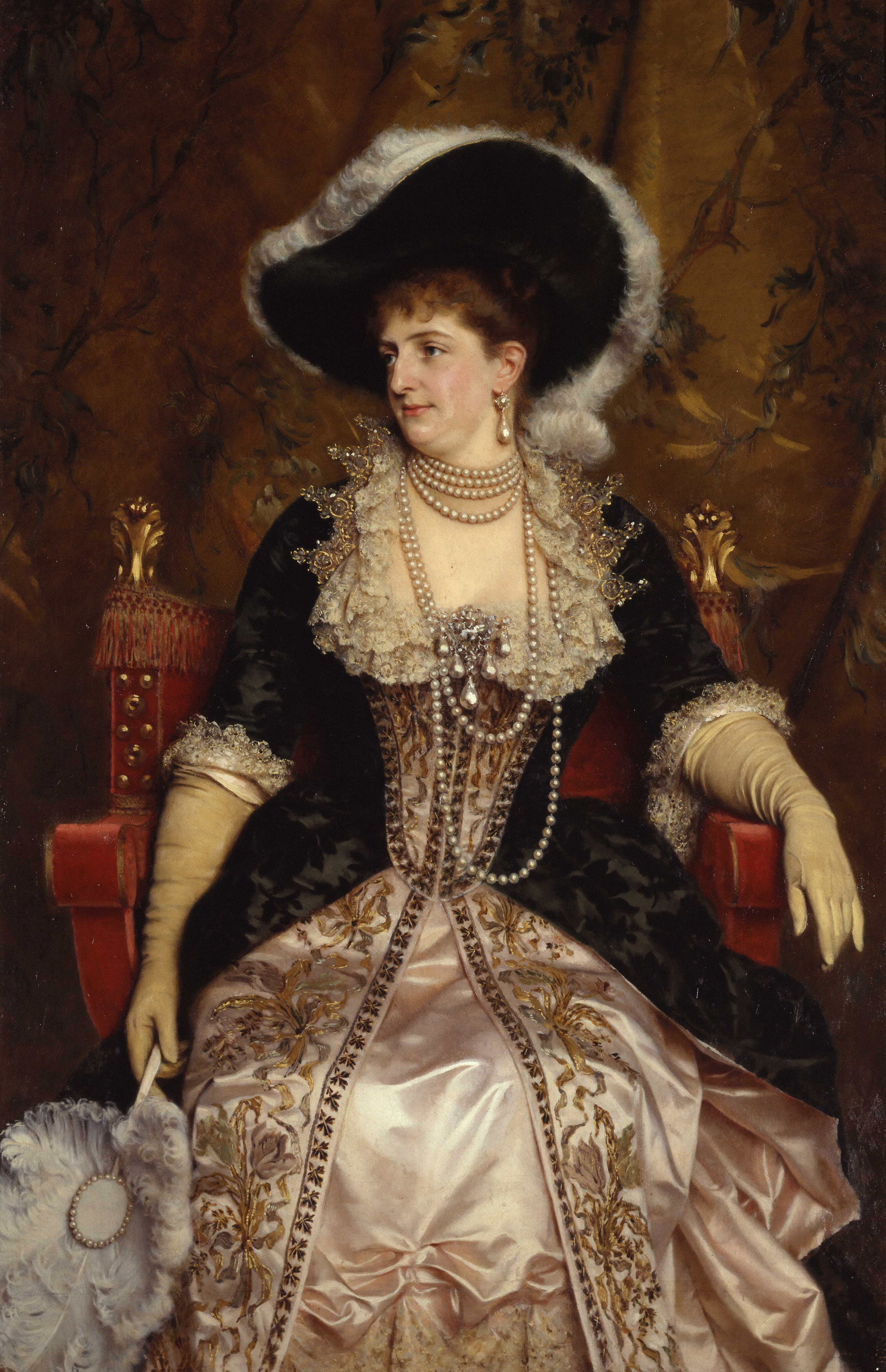 Margherita of Savoy (1851-1926), Queen of Italy